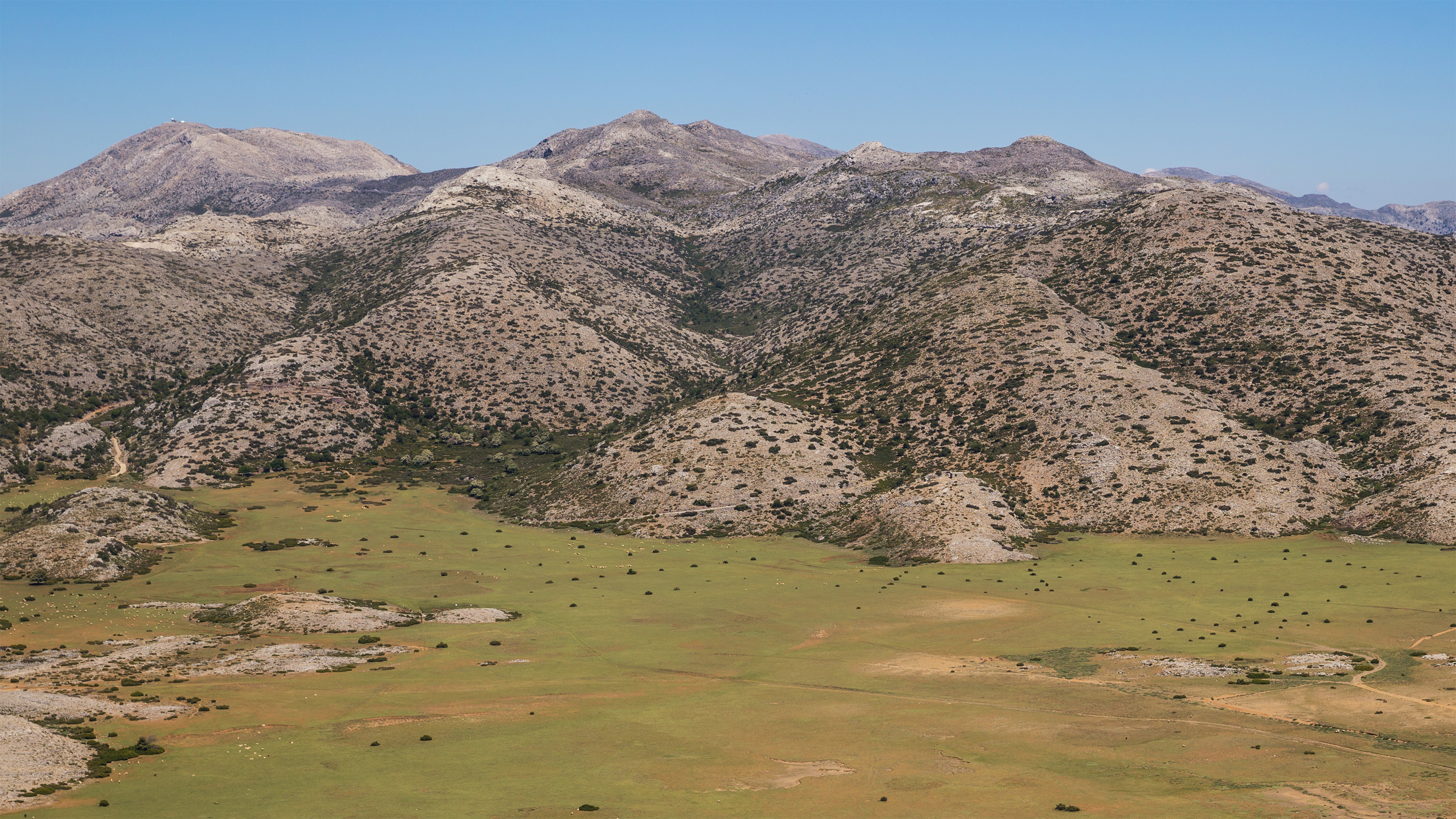 Nida Plateau, Crete